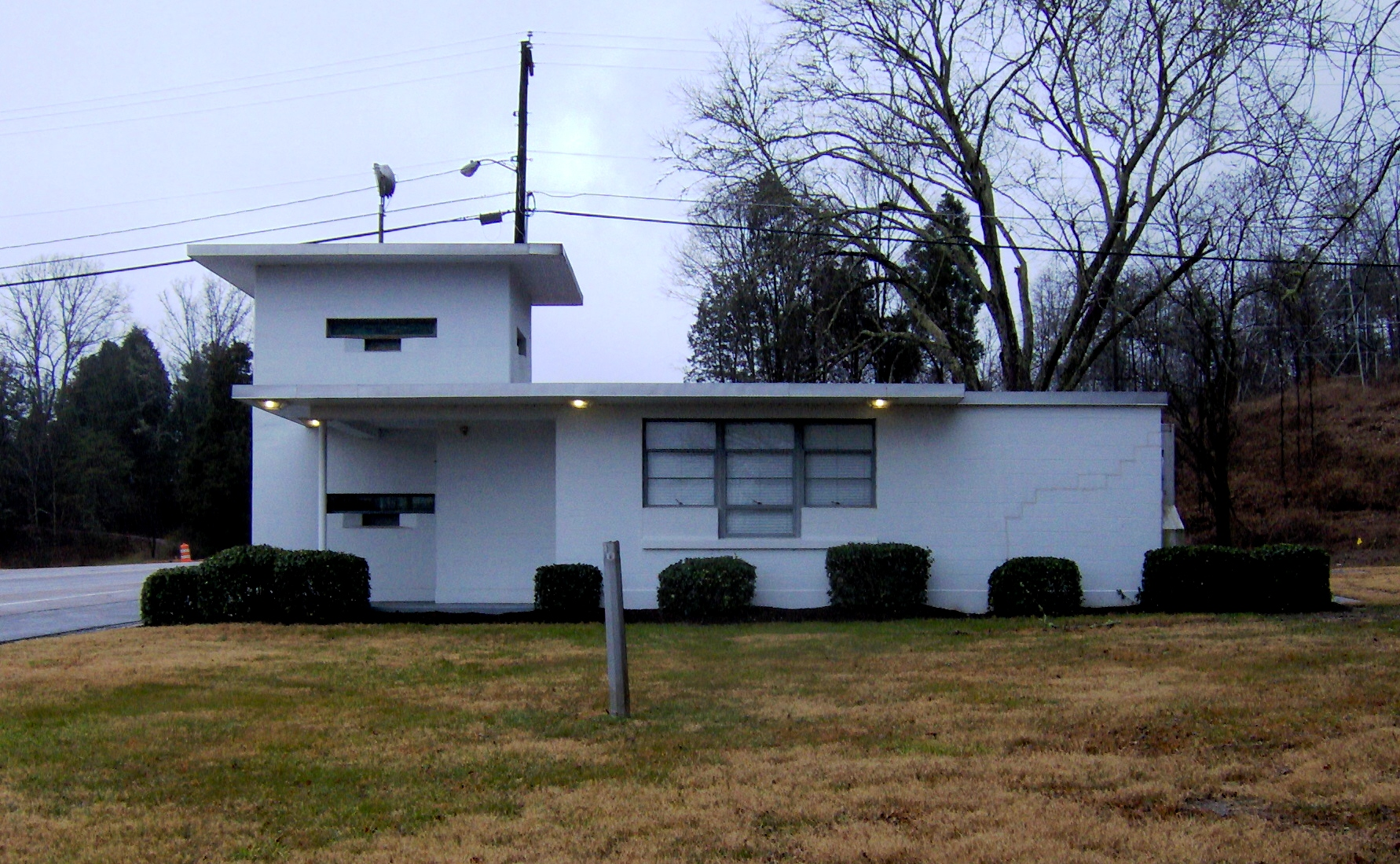 The Oak Ridge Turnpike Checking Station, a World War II-era gatehouse in Oak Ridge, Tennessee, USA. This station was one of several security checkpoints that filtered traffic in and out of the area's Manhattan Project facilities.